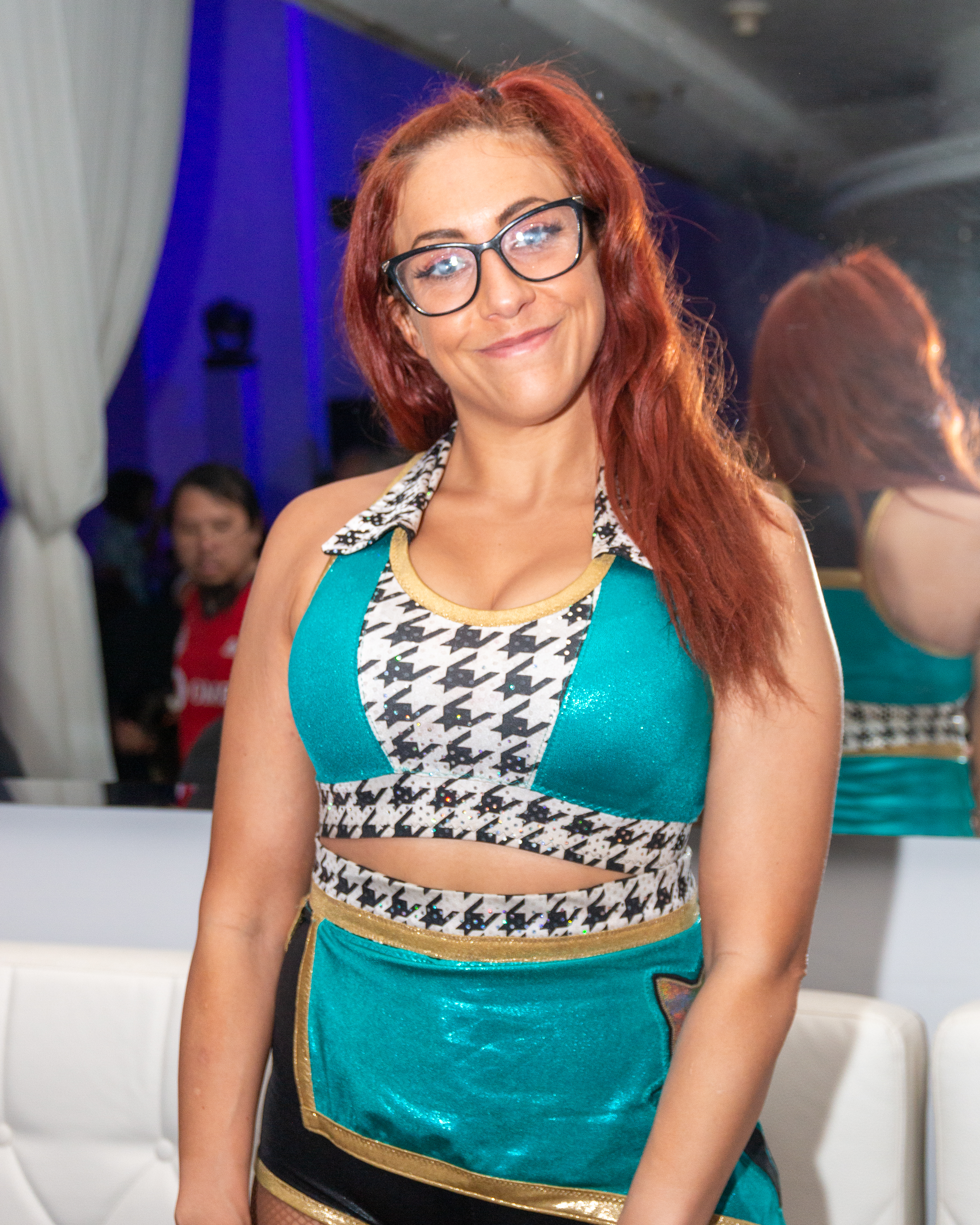 Independent wrestler Veda Scott at Smash Wrestling's The Summit show in Toronto, ON